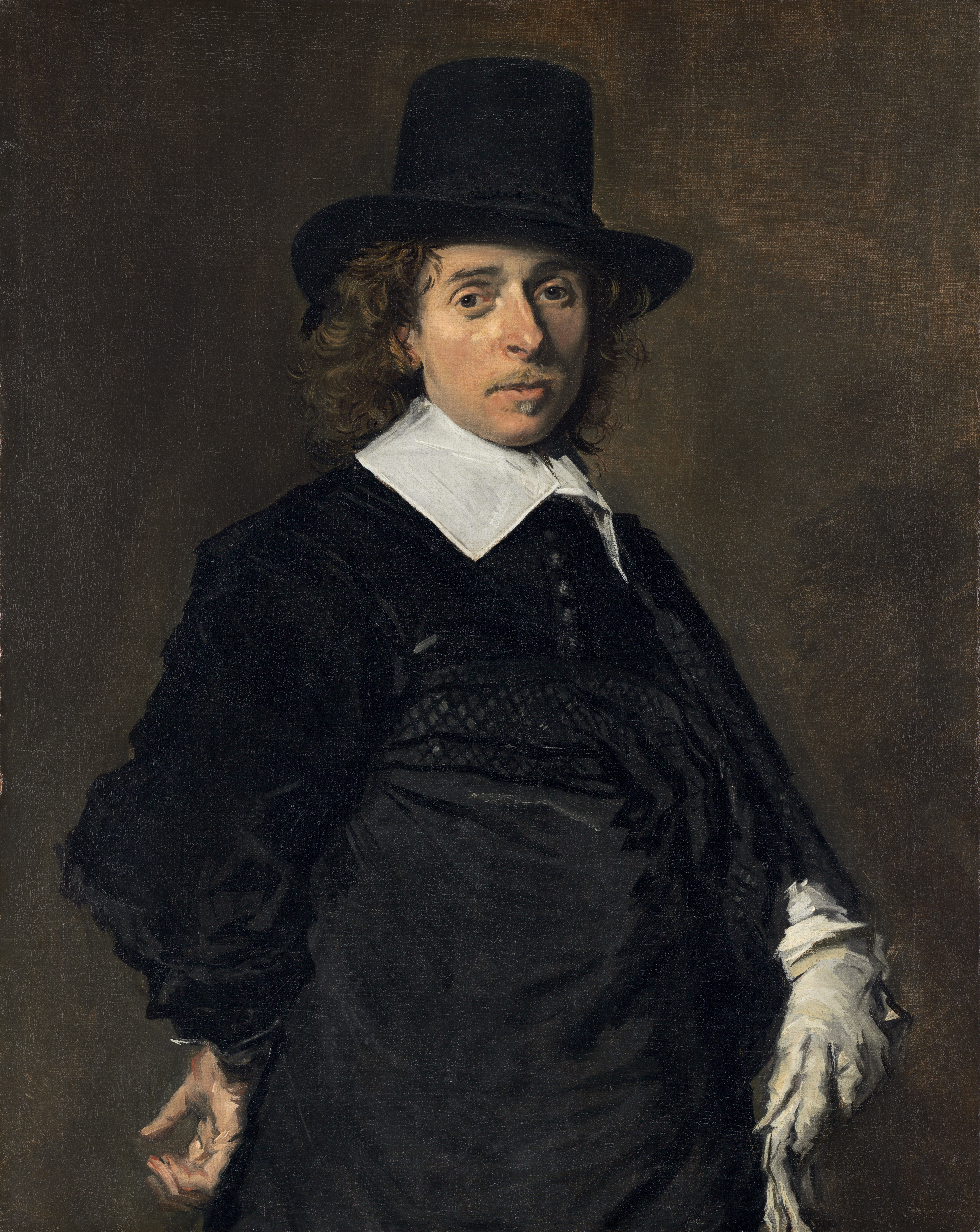 Frans Hals's painting Adriaen van Ostade, from c. 1645/1648. Hanging at the National Gallery of Art in Washington D.C.